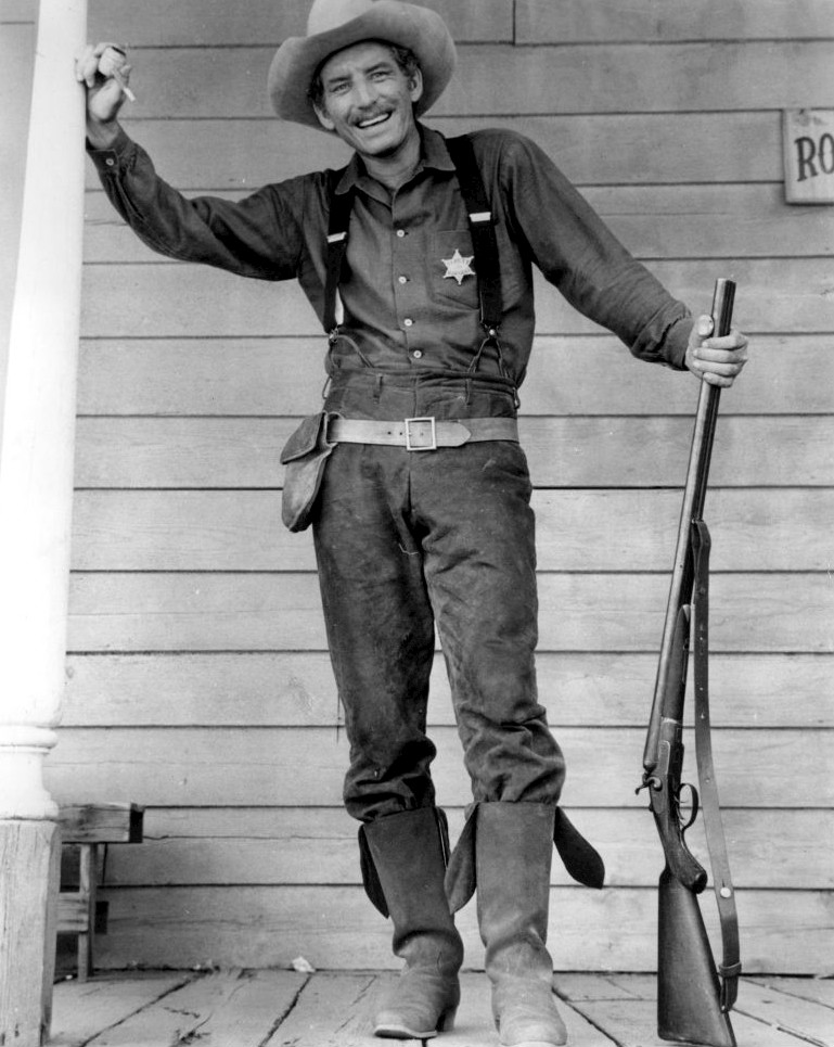 Photo of Morgan Woodward as Shotgun Gibbs from the television program The Life and Legend of Wyatt Earp. Woodward played Earp's deputy in the series.